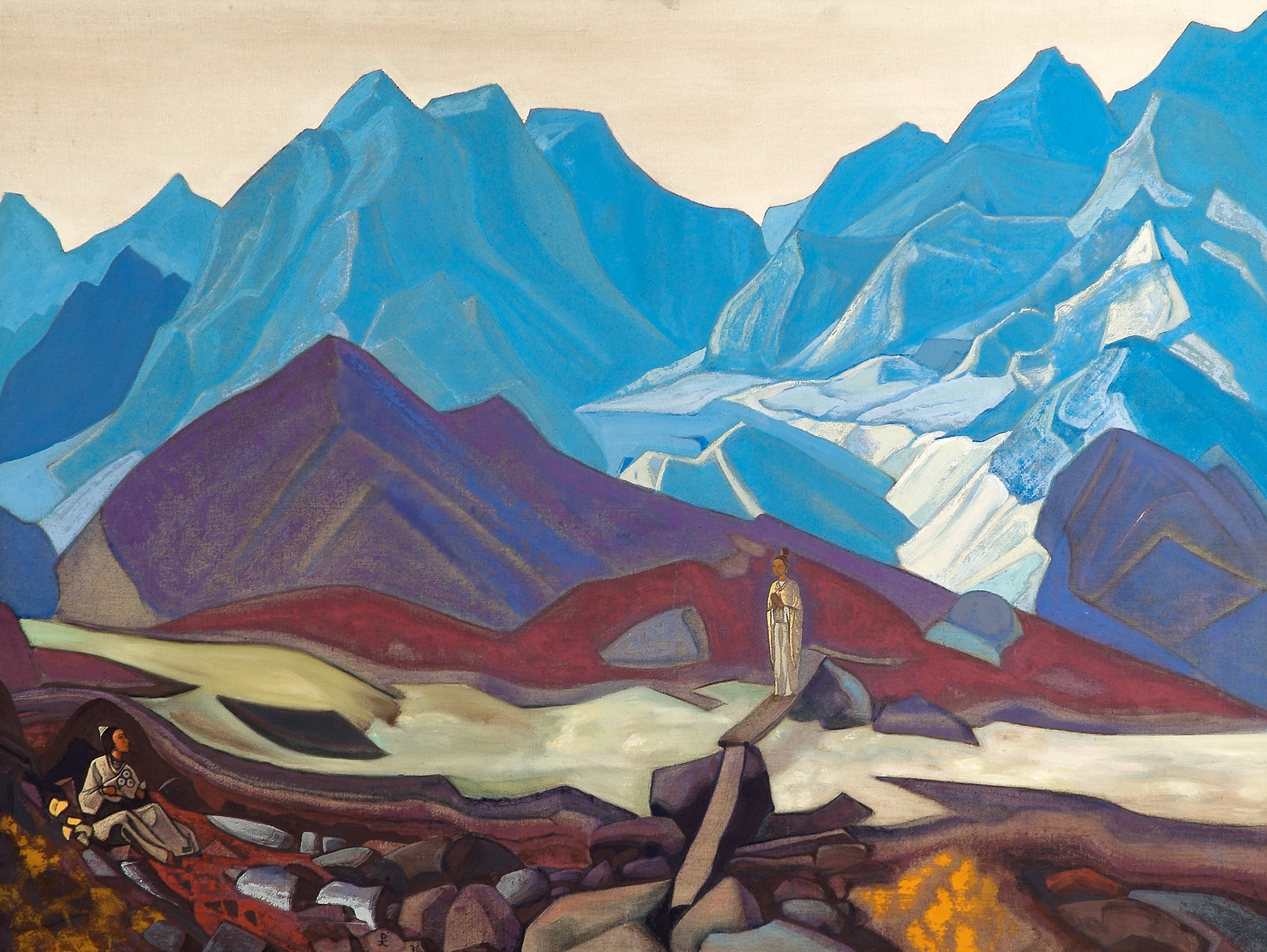 Nicholas Roerich "From Beyond". 1936. Tempera on canvas. 91,5 x 122 cm